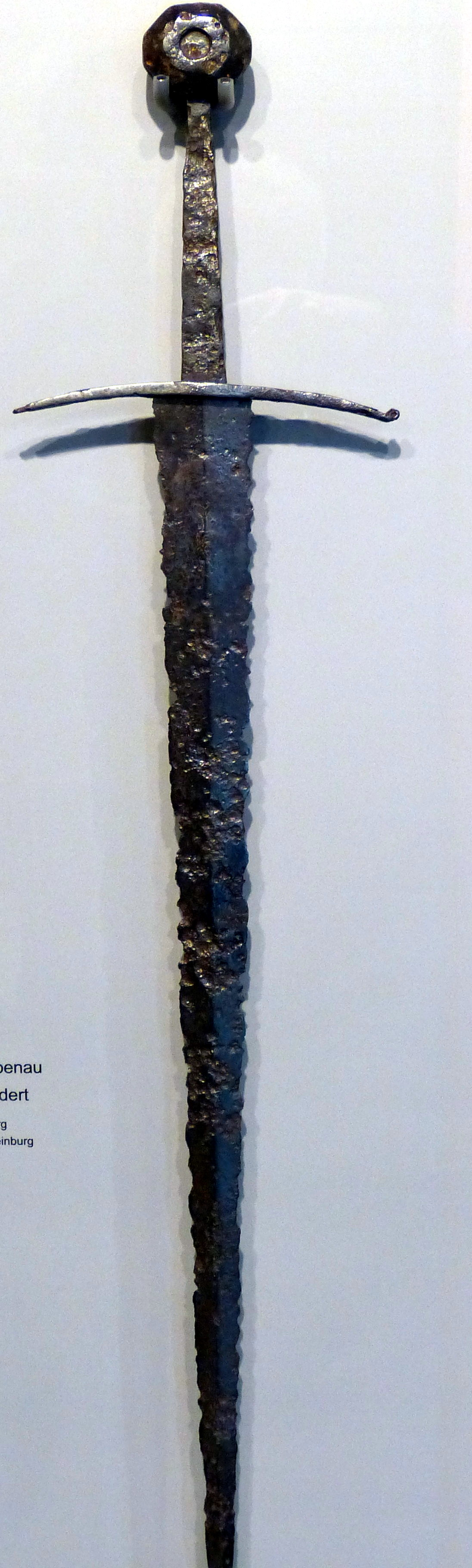 Upper Austrian Castle Museum in Reichenstein castle. Medieval sword ( 13th/14th century ), from Liebenau.